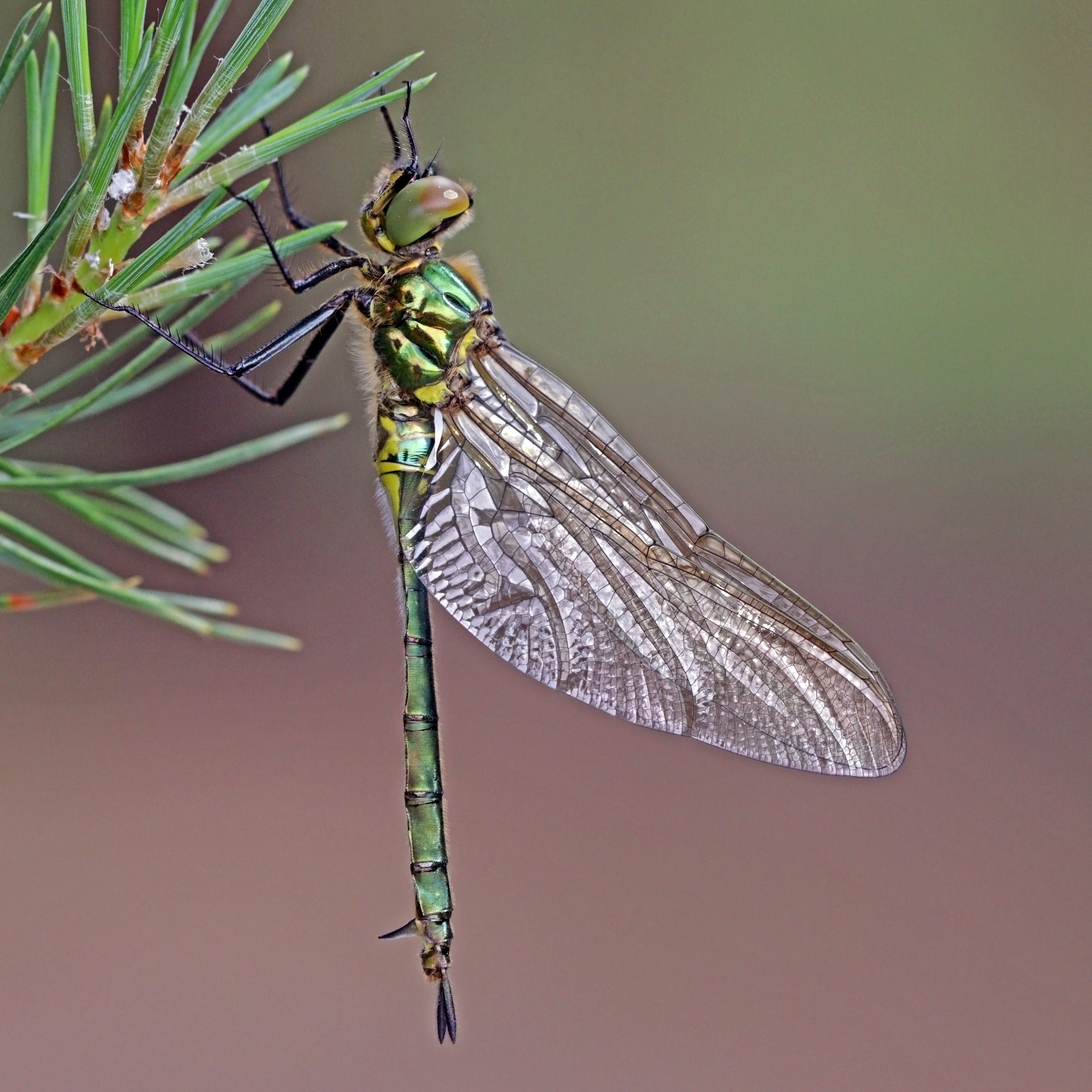 Brilliant emerald (Somatochlora metallica) teneral female, Moat Pond, Thursley Common, Surrey